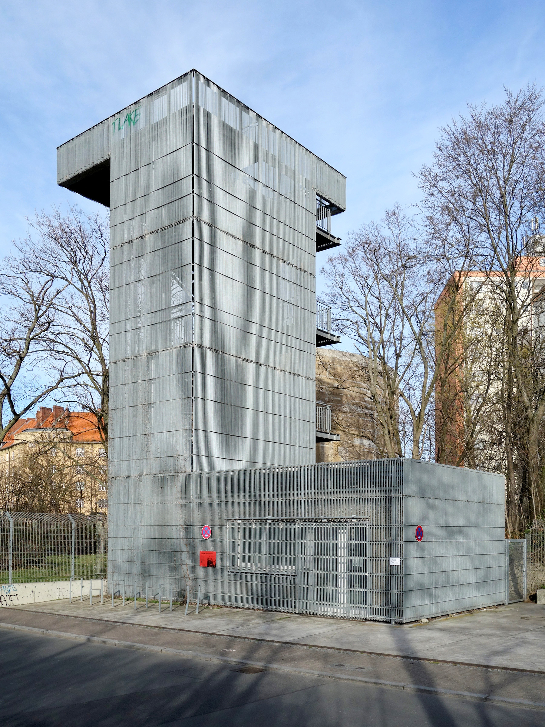 Information centre Schwerbelastungskörper with observation tower, Berlin